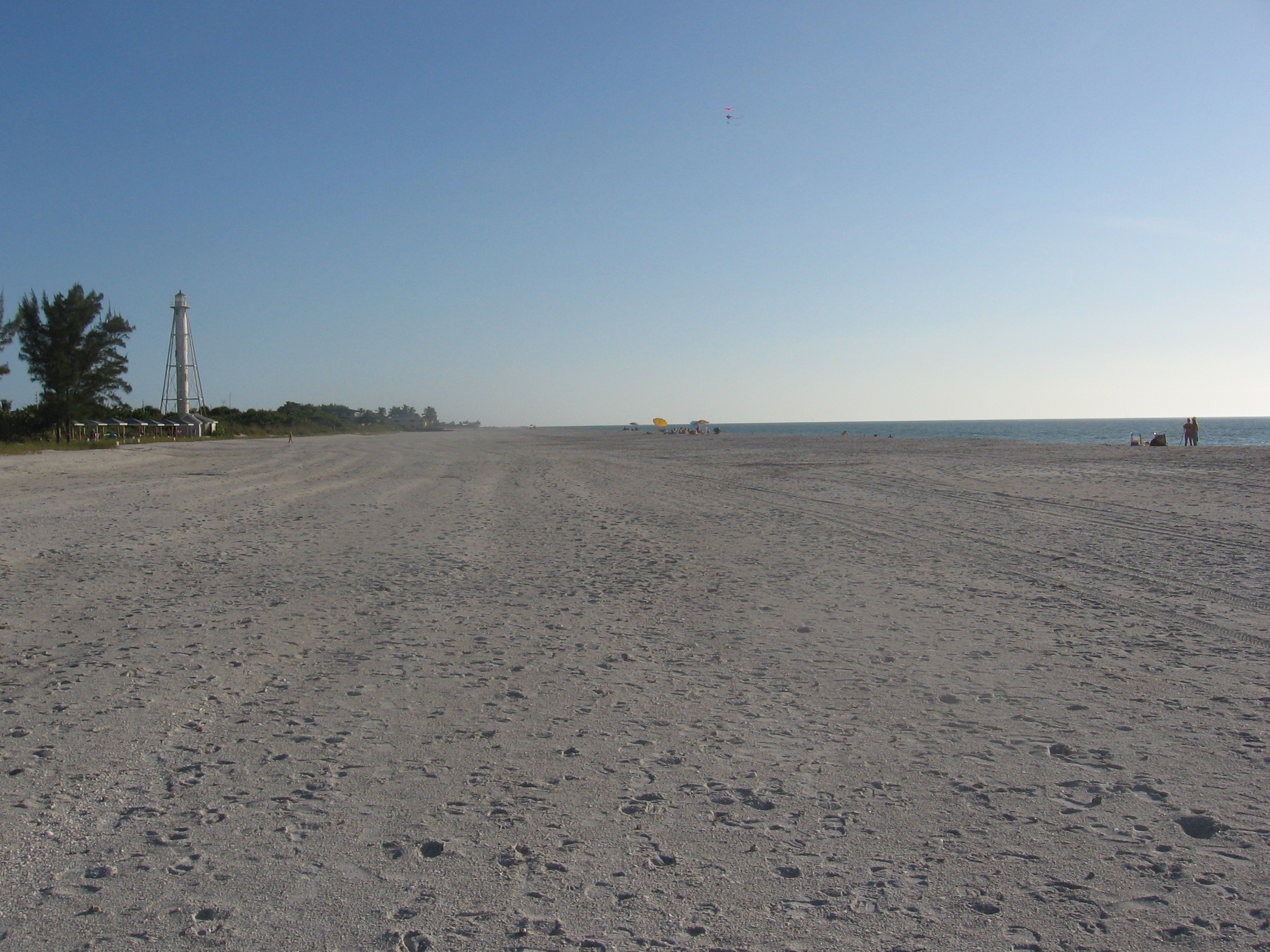 Boca Grande Public Beach-post renaturing